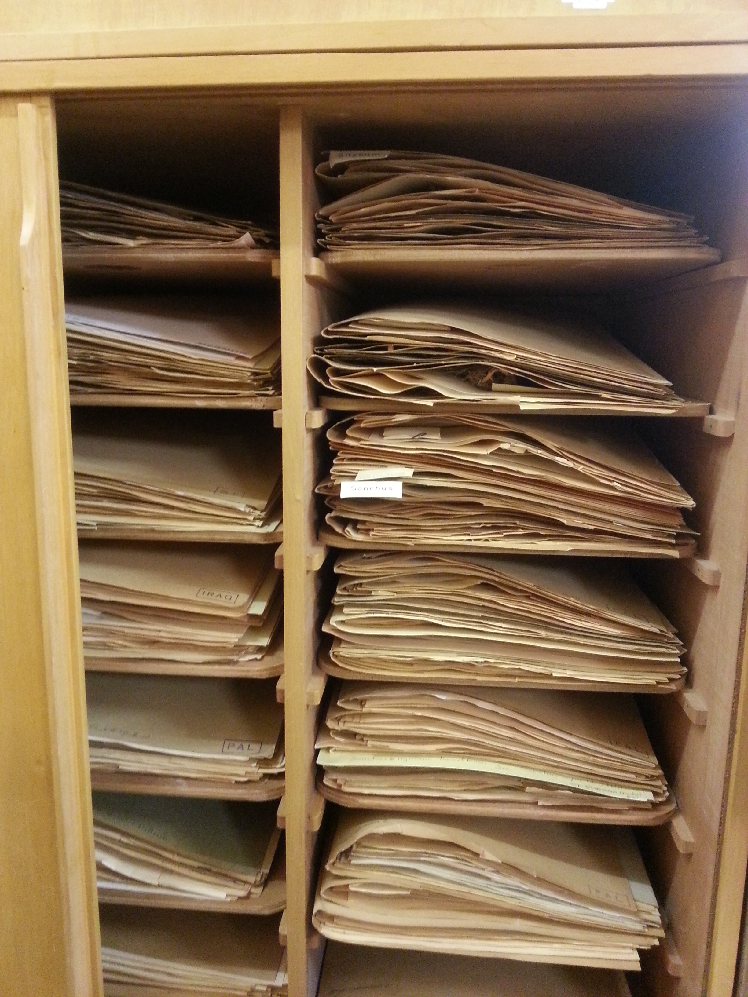 Samples at the Hebrew U Herbarium